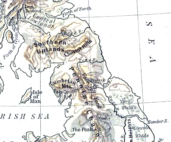 Northumberland and surrounding areas. The coal fields of Northumberland are in the shaded region extending along the coast north of the river Tyne.